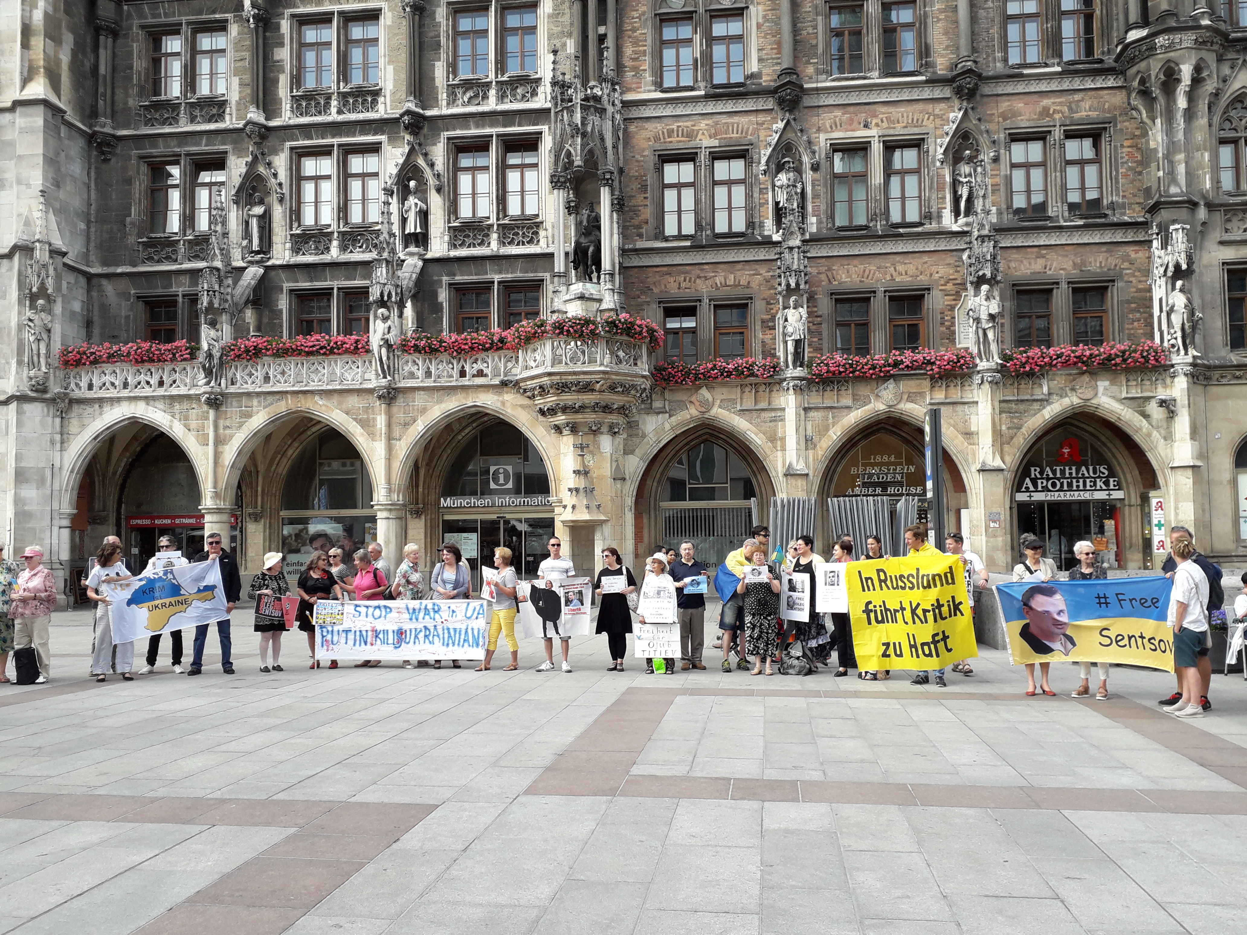 Oleg Gennadyevich Sentsov (Ukrainian: Олег Геннадійович Сенцов, Oleh Hennadiovych Sentsov) is a Ukrainian filmmaker and writer, best known for his 2011 film Gamer. He was arrested by the Russians authorities in Crimea and convicted to 20 years in jail by Russian court on charges of plotting terrorism acts. The conviction was widely described as fabricated or exaggerated. On 14 May 2018, he went on an open-ended hunger strike protesting the incarceration of 65 Ukrainian political prisoners in Russia and demanding their release. On June 3, 2018 in Munich on Marien Platz, the central square of the Bavarian capital, an action was held in support of the Ukrainian director Oleg Sentsov.